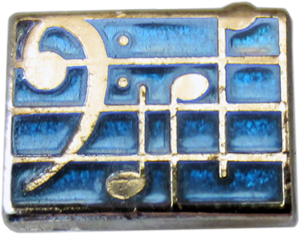 Prospective member pin of Kappa Kappa Psi, National Honorary Band Fraternity